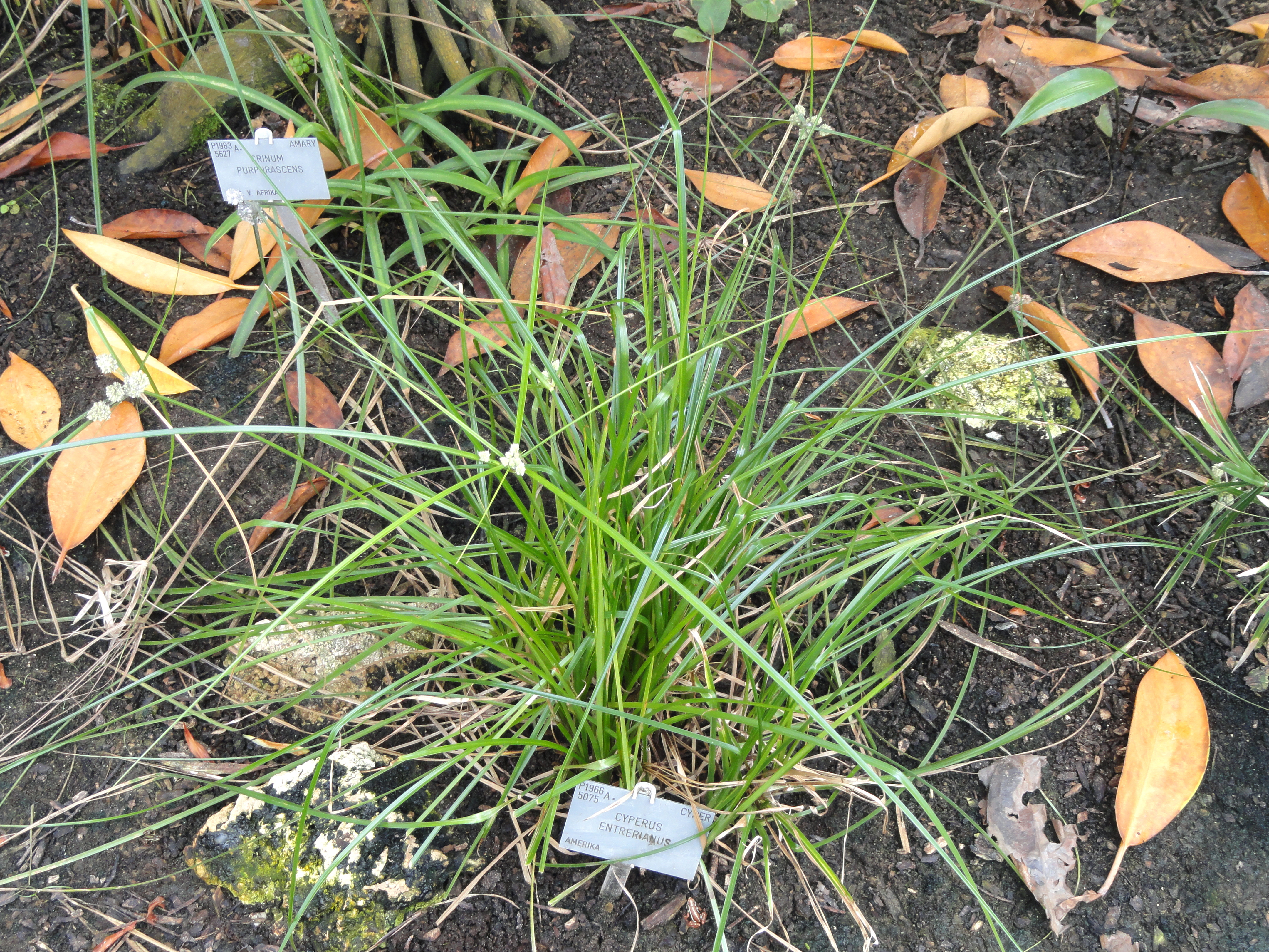 Botanical specimen in the University of Copenhagen Botanical Garden, Copenhagen, Denmark.